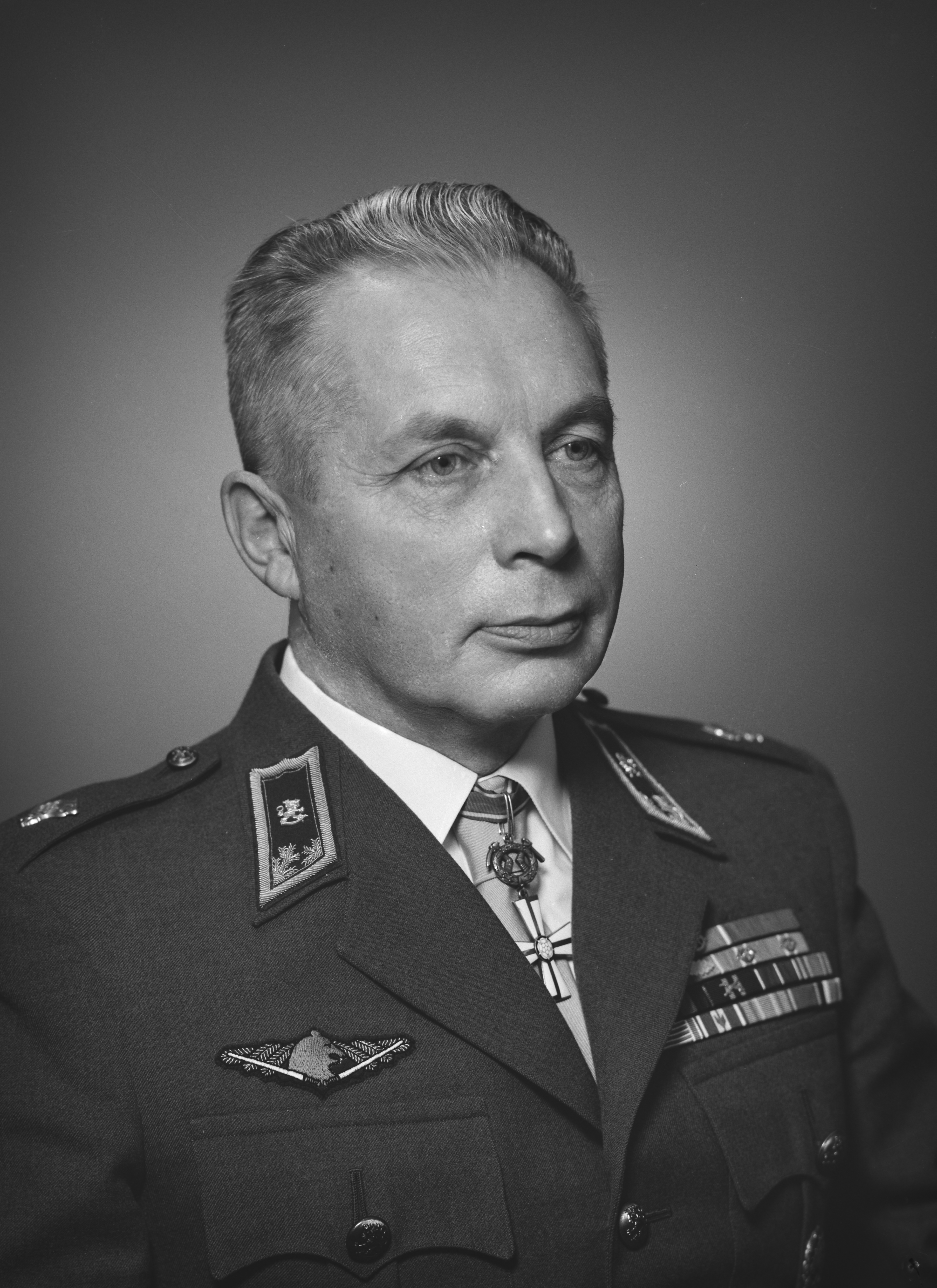 Photograph of the Finnish lieutenant general Antti Pennanen (1903–1989).